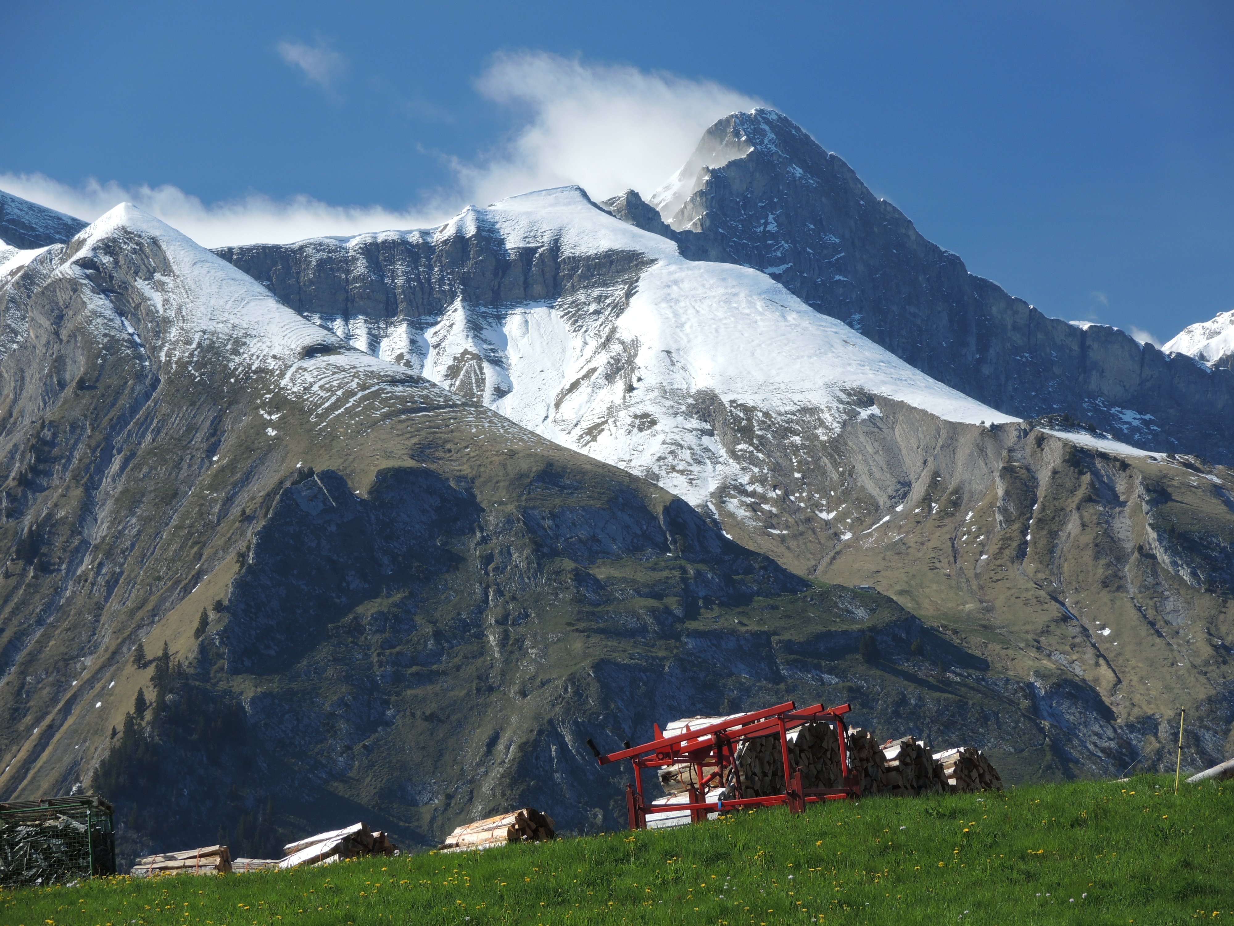 Pointe de Paray, Château-d'Oex (Les Craux-Le Pratey)